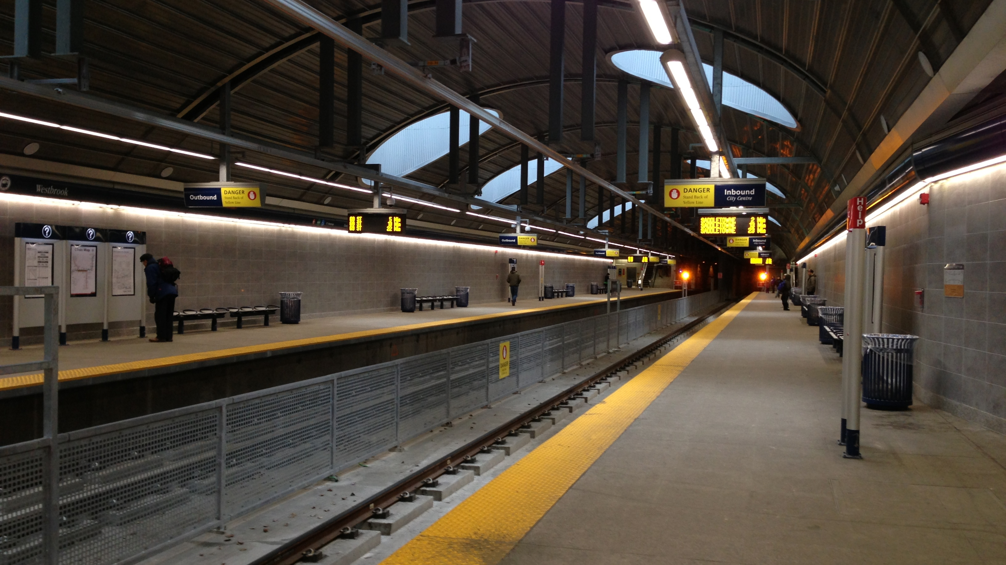 Westbrook C-Train station platform level, Calgary, Alberta, Canada.